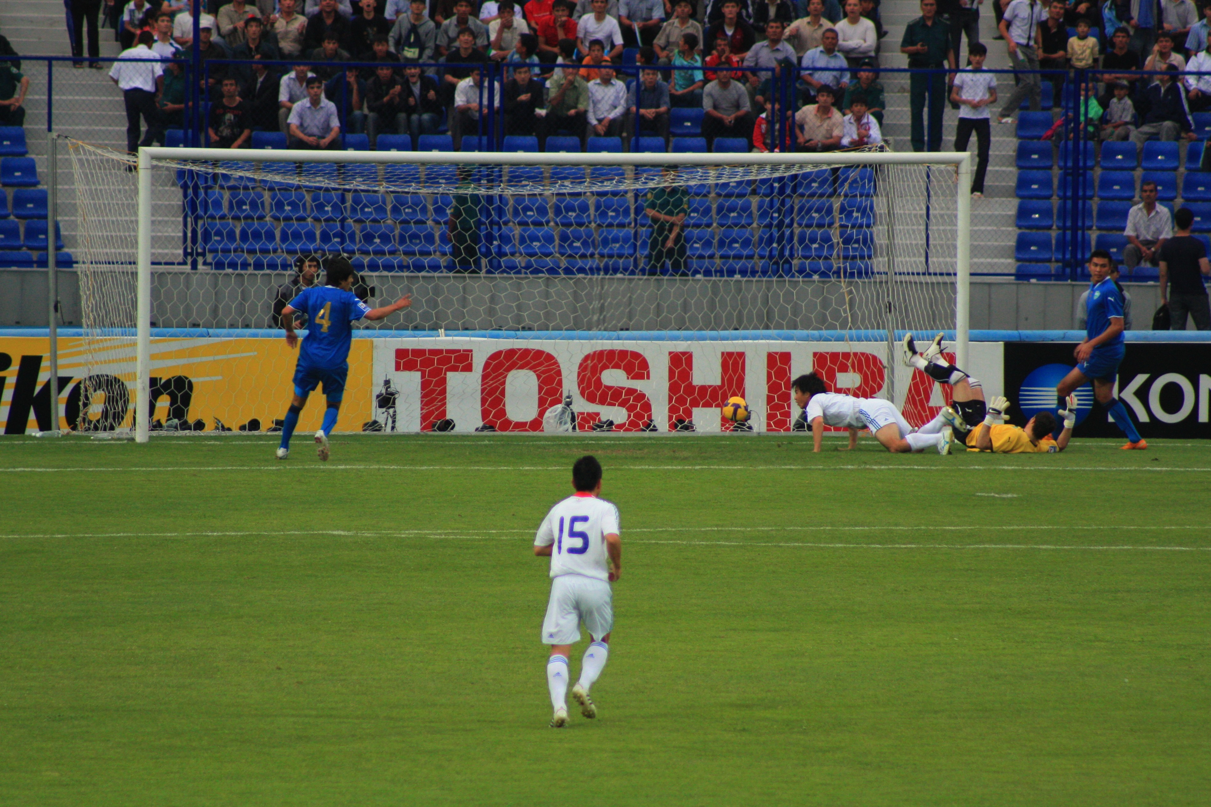 Shinji Okazaki's goal during qualification match for the 2010 Soccer World Cup (Asian zone) : Uzbekistan 0-1 Japan, at Pakhtakor Stadium, in Tashkent (Uzbekistan). Uzbekistan is in blue, Japan in white.